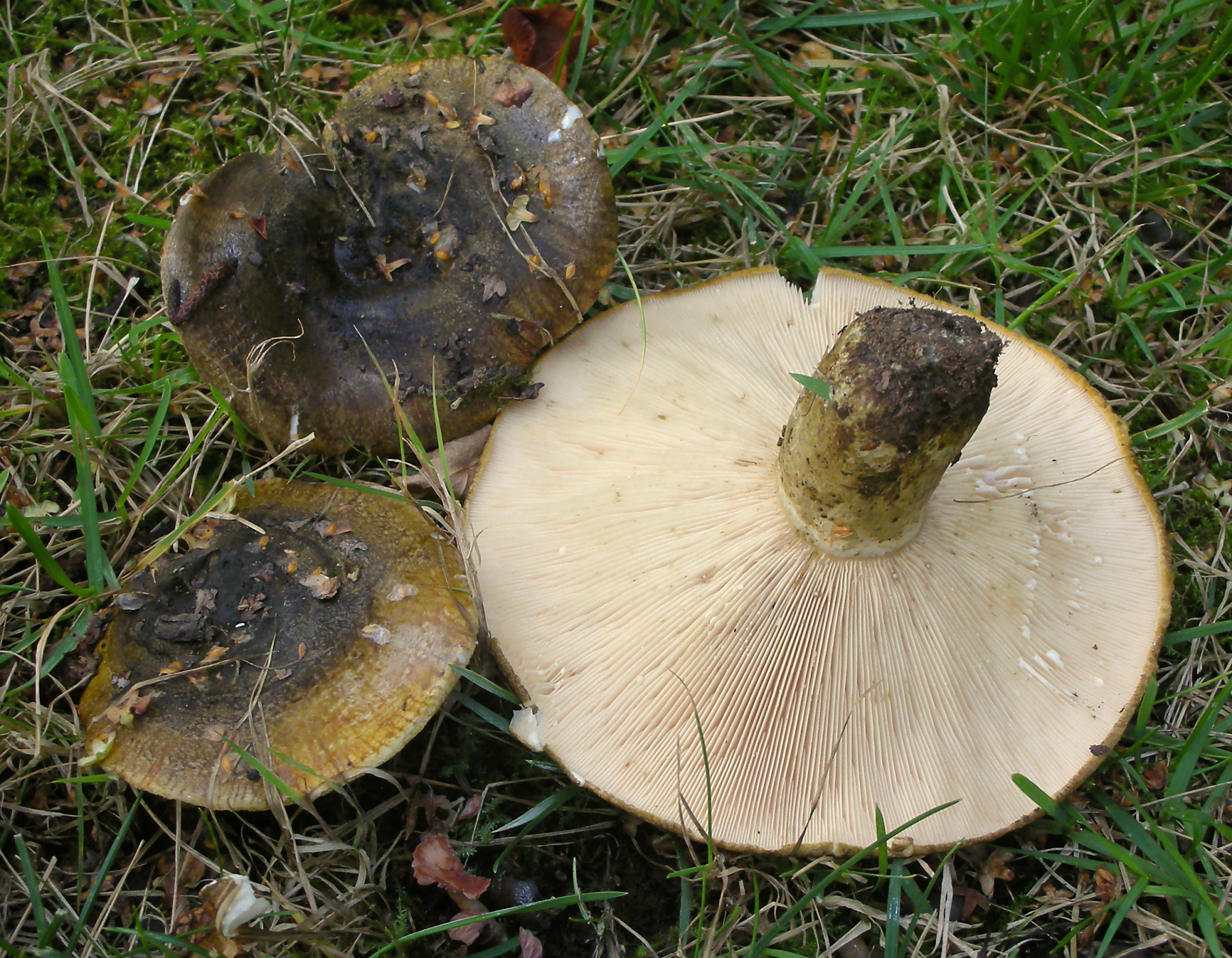 Lactarius turpis (Weinm.) Fr. Image location: Larkspur, California, USA Growing under planted Birch. Caps up to 9.5 cm across and sl. tacky. Latex white staining the gills brownish. Taste was latently acrid. Spore print was creamy. Spores were ~ 7.0 X 5.9 microns. Looks to be a good ID but my spore measurements are somewhat smaller than what I found in Phillip’s book. Used references: Reliable amateur mycologists. For more information about this, see the observation page at Mushroom Observer.